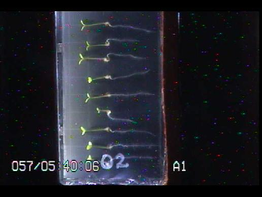 An image of seedlings growing during the TROPI experiment on the ISS. Seedlings have a healthy appearance and exhibited vigorous growth.